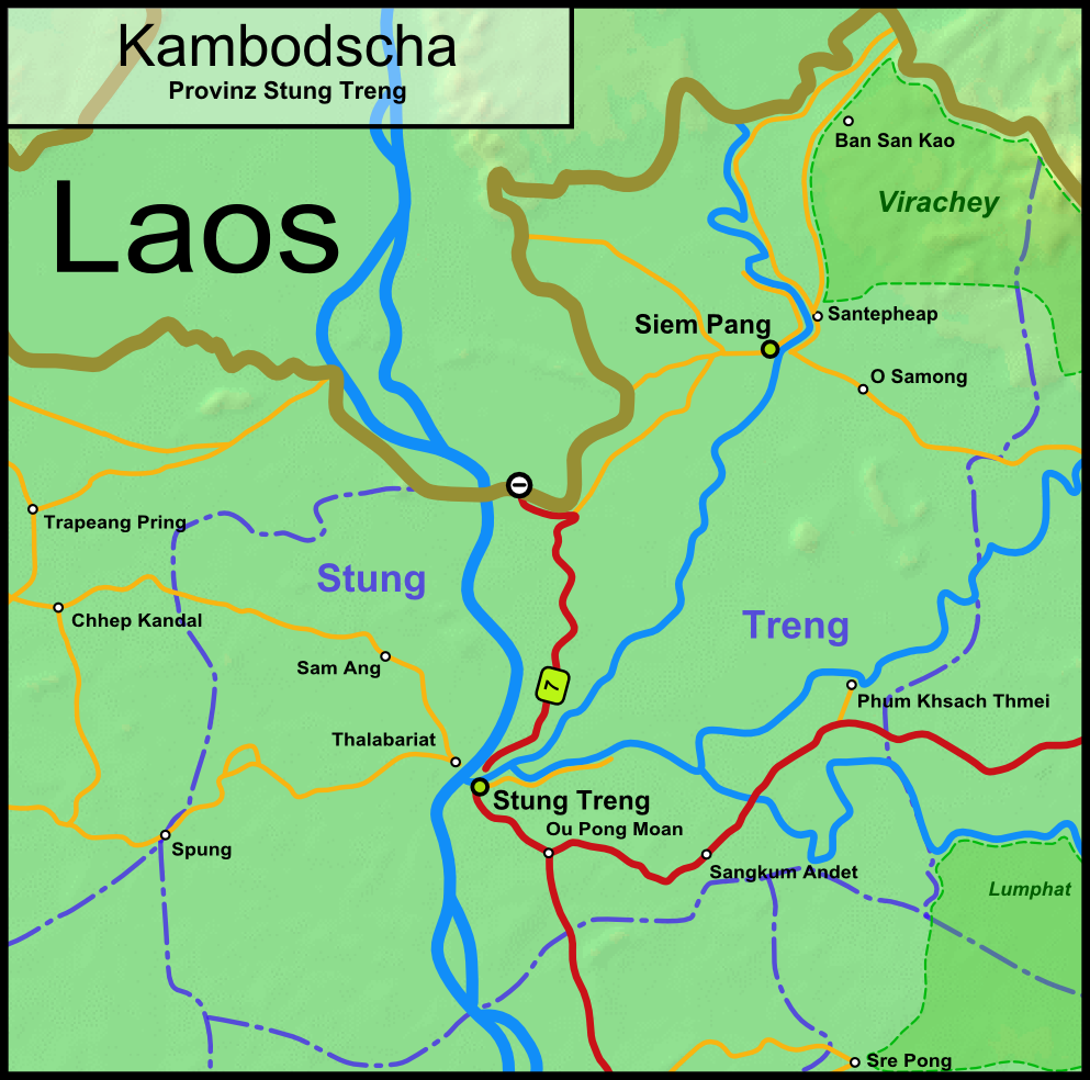 Map of the Cambodian province Stung Treng